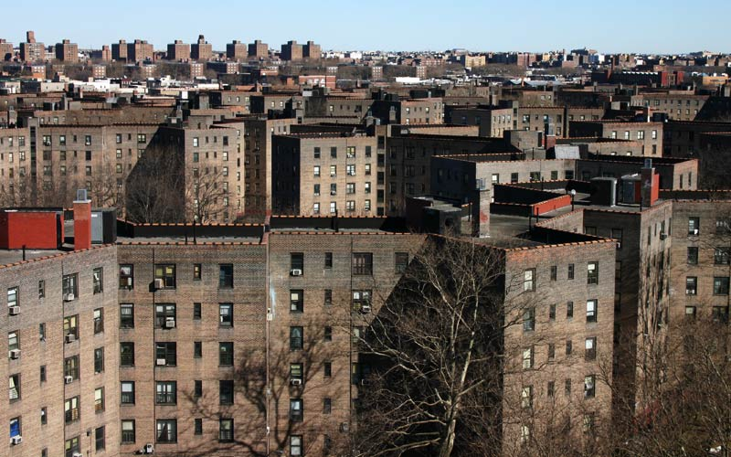 Queensbridge Houses, seen from Queensboro Bridge